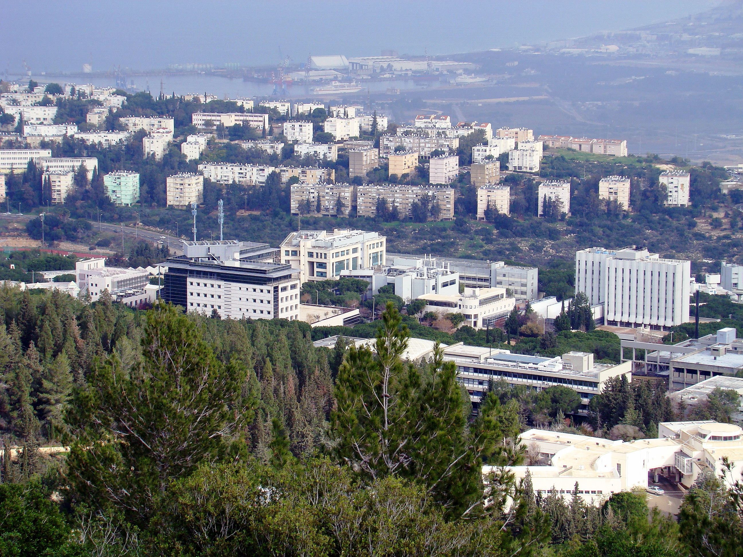 Technion – Israel Institute of Technology - Campus